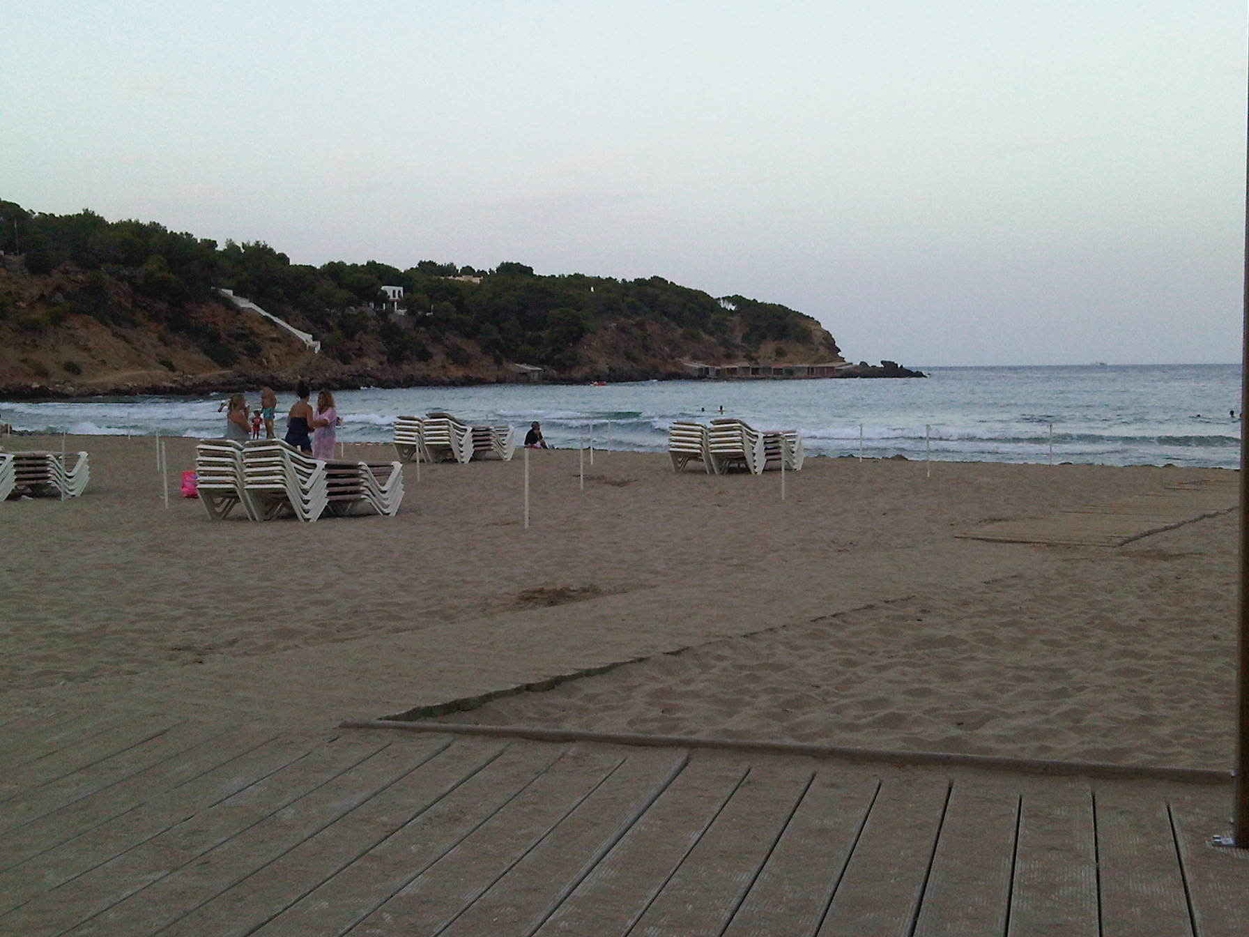 Cala Llenya, Beach Facing East